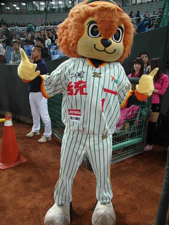 The lion is mascot of uni-president 7-eleven lions.